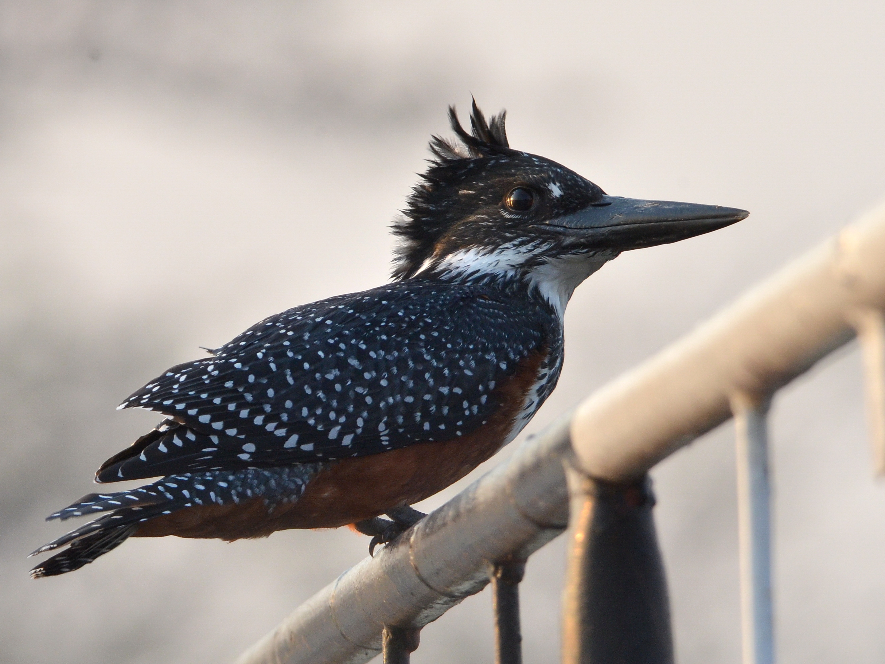 Giant Kingfisher near Kafue, Zambia.